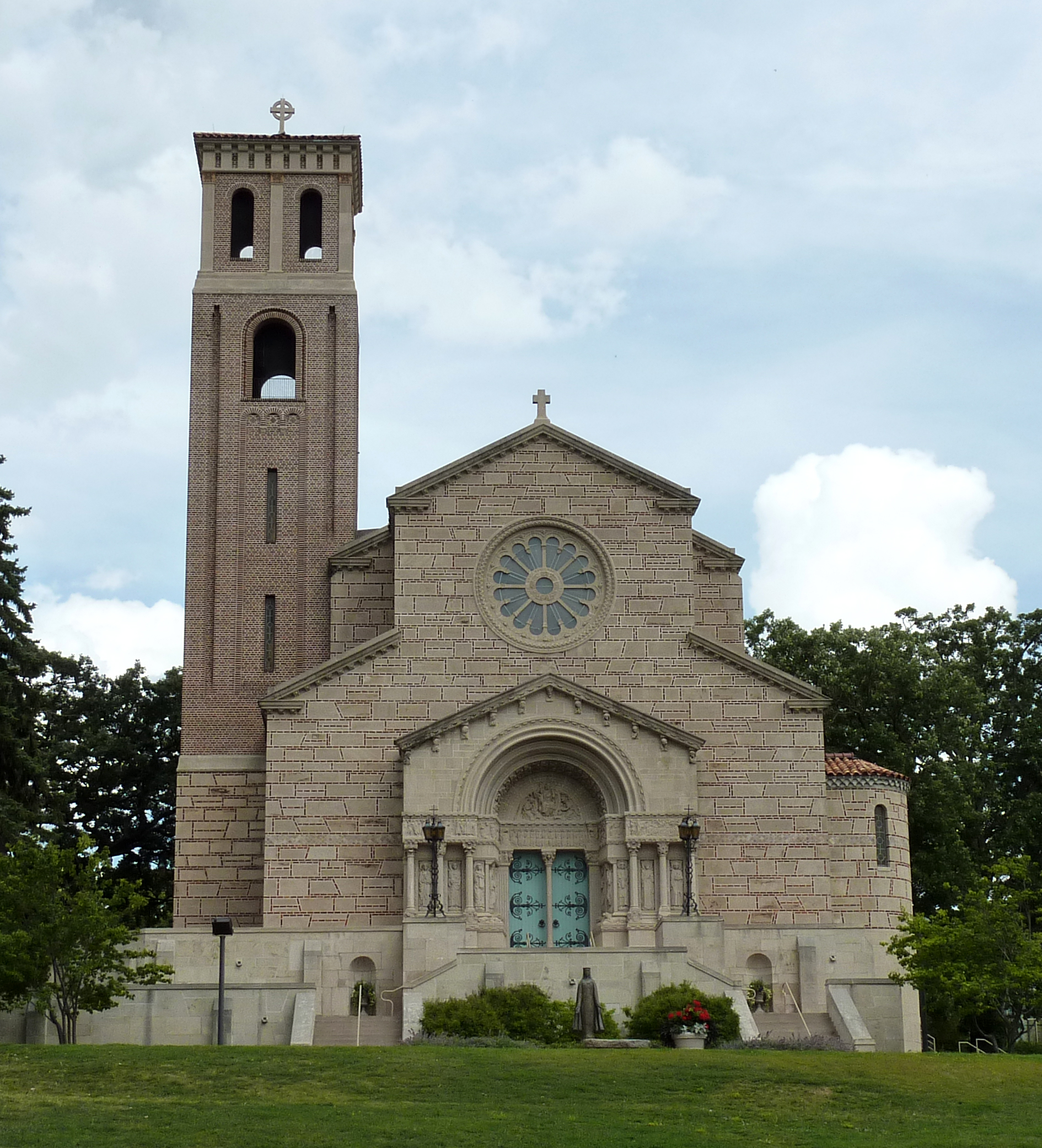 Our Lady of Victory Chapel, St. Catherine University, St. Paul, Minnesota, USA.